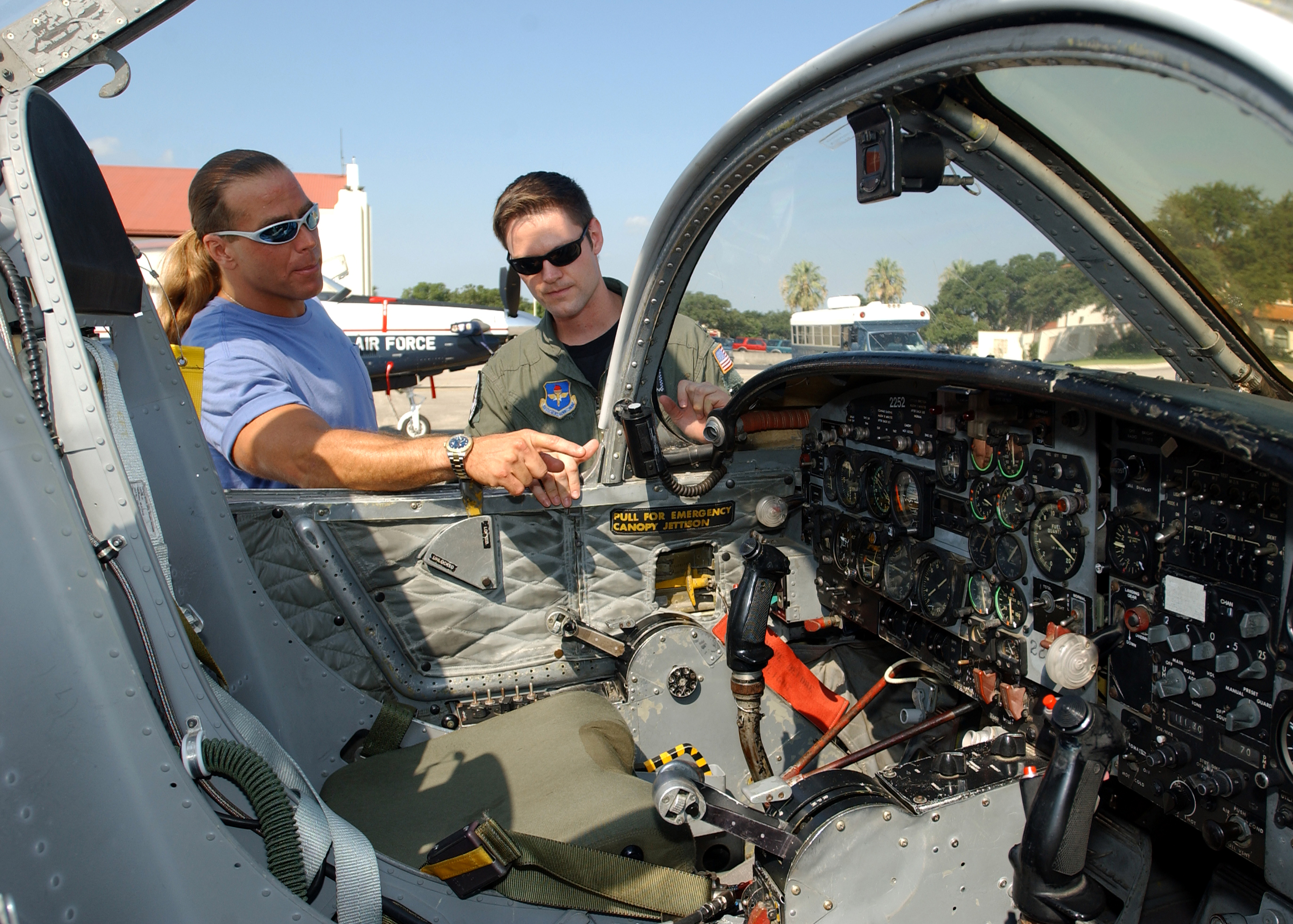 Professional wrestler Shawn Michaels